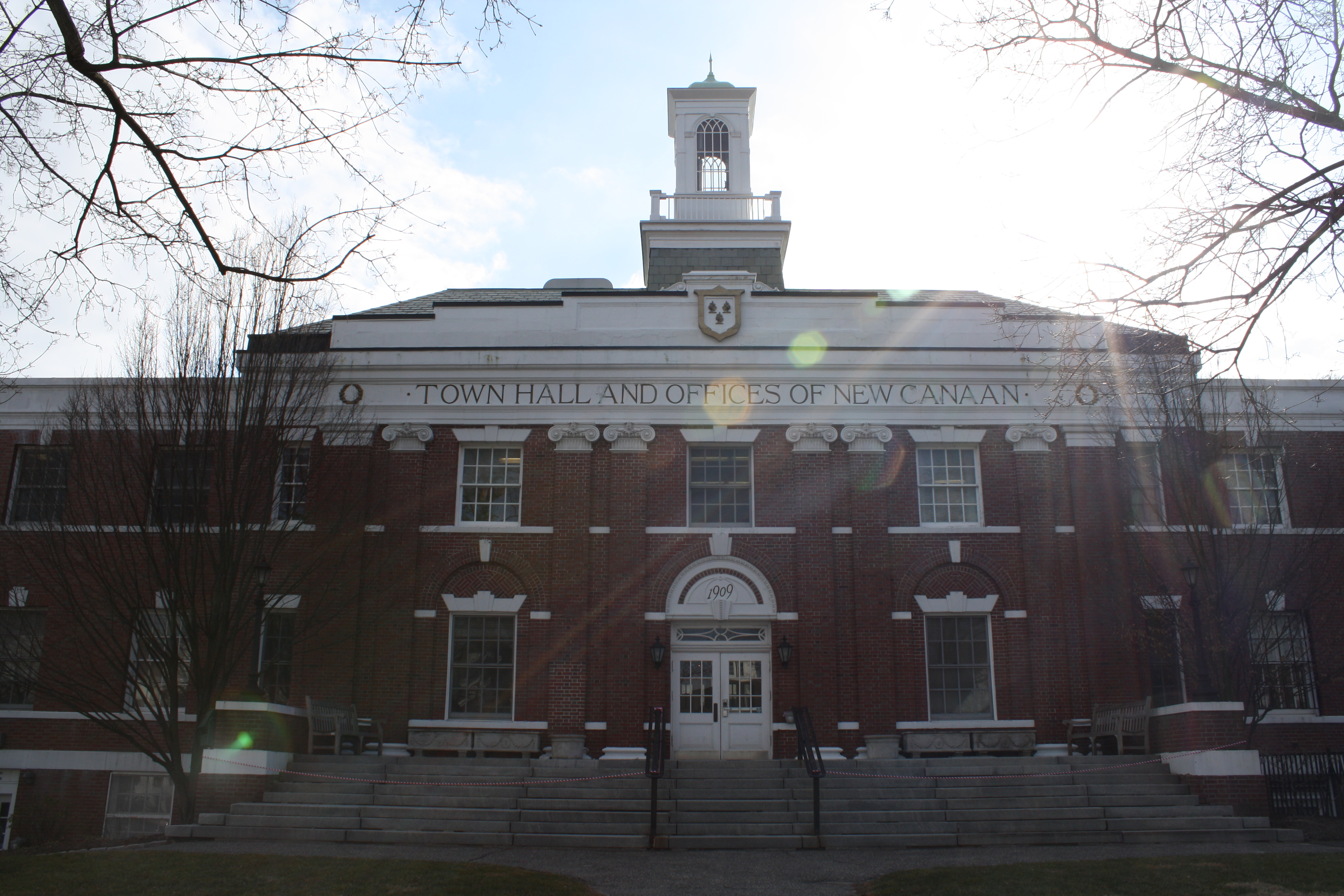 New Canaan Town Hall in New Canaan, Connecticut